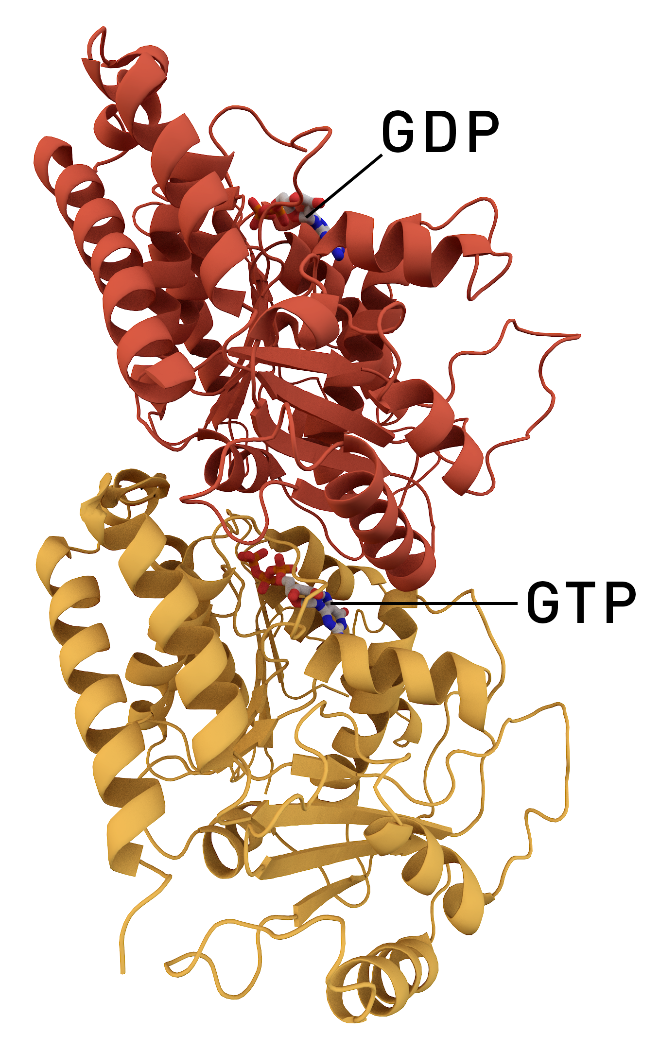 Cartoon representation of the atomic structure of a GDP/GTP-bound Tubulin Dimer, based on PDB ID: 1JFF